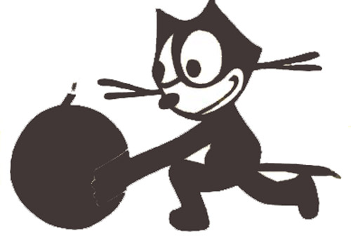 Original insignia of VF-2B, VF-3, VF6B.